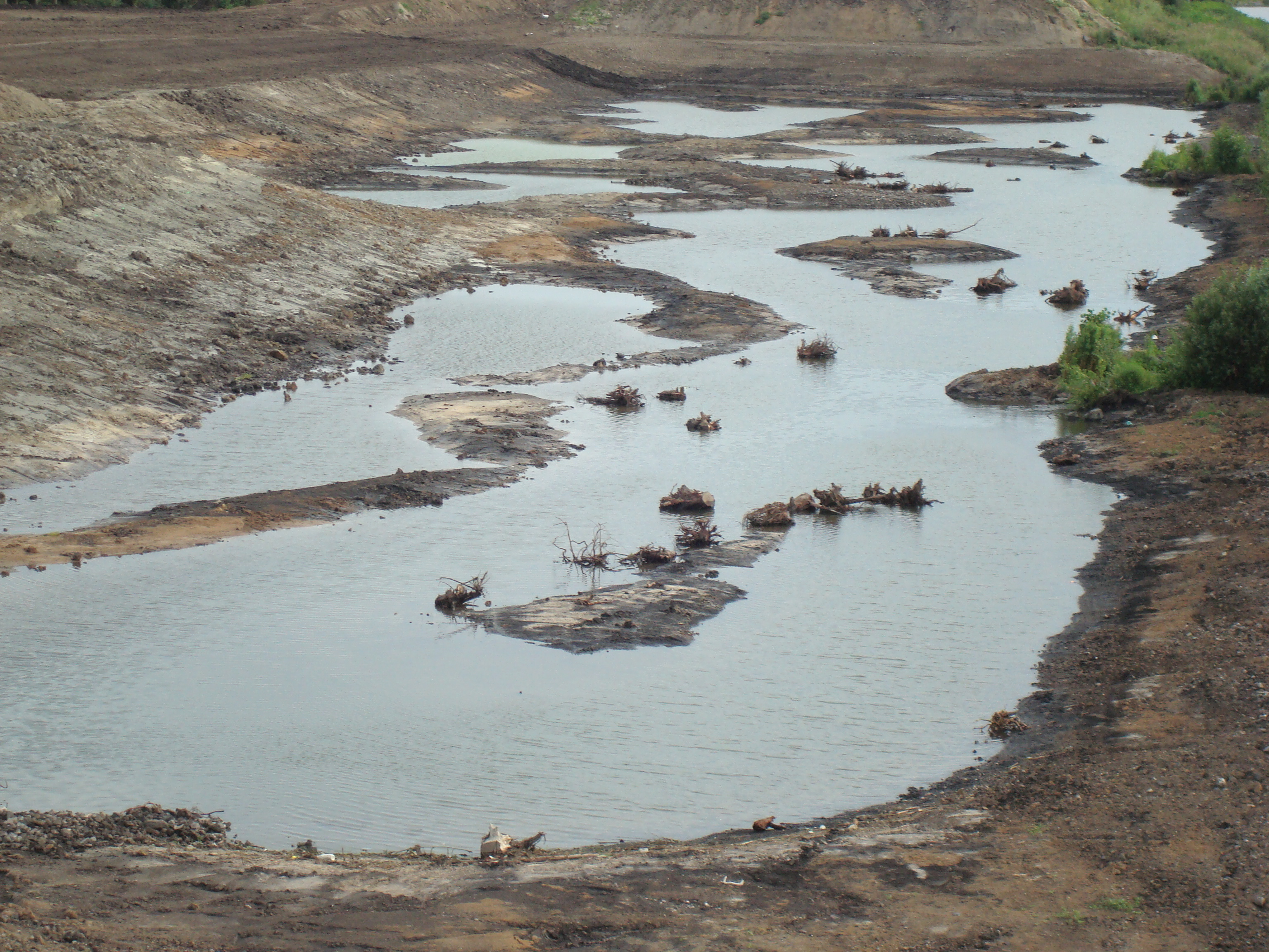 Banks with subnatural lagoons (Constructed wetland) were created (2010) by VNF (Waterways of France), as a countervailable to set wide gauge of the Scheldt in the north of France, on the edge of the river. The lagoon is divided into meanders in order to extend the ecotone soil-water and purifying water of the Scheldt. It is powered by the Scheldt itself passively or more "active" during the passage of boats (which produces a wave with pressure and depression).